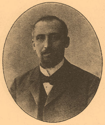 Illustration from Brockhaus and Efron Encyclopedic Dictionary (1890—1907)